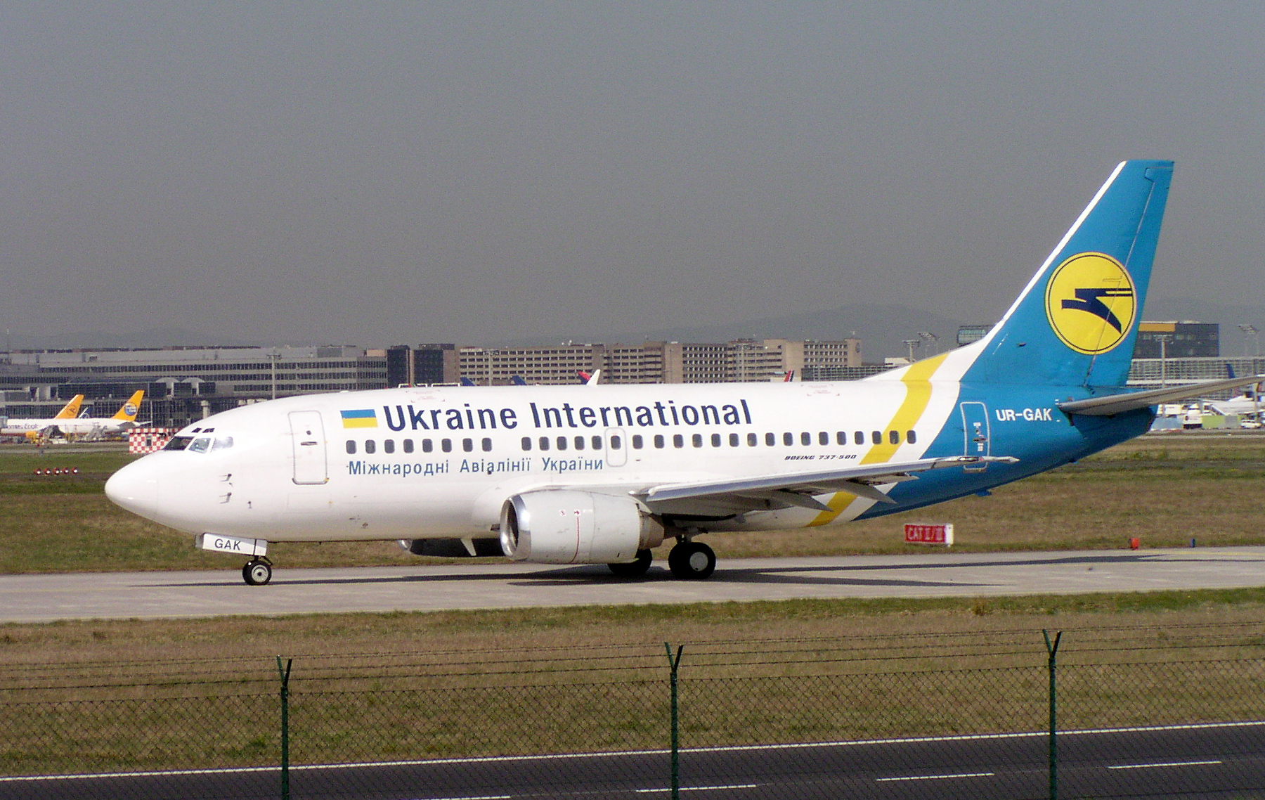 Description: Ukraine International Boeing 737-5Y0 (UR-GAK) in Frankfurt, April 2003. Photographer: Arcturus Licence: GFDL + cc-by-sa-2.0-de